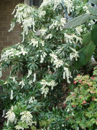 authors own specimen HelloMojo 11:51, 20 March 2007 (UTC)